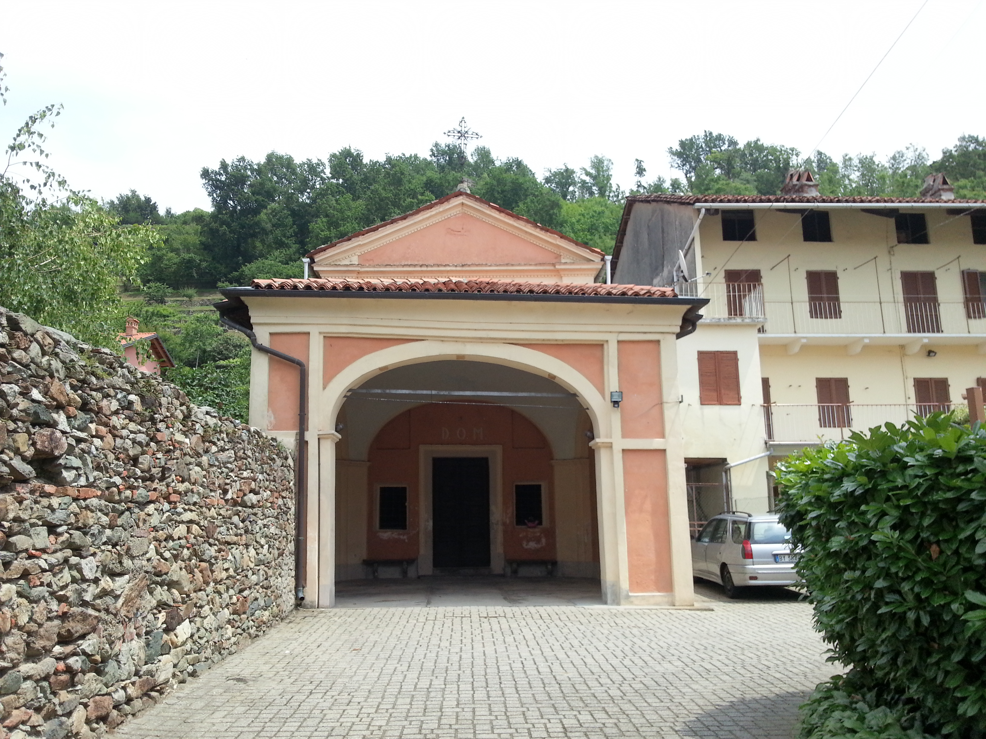 Madonnina Church, Burolo, Northern Italy